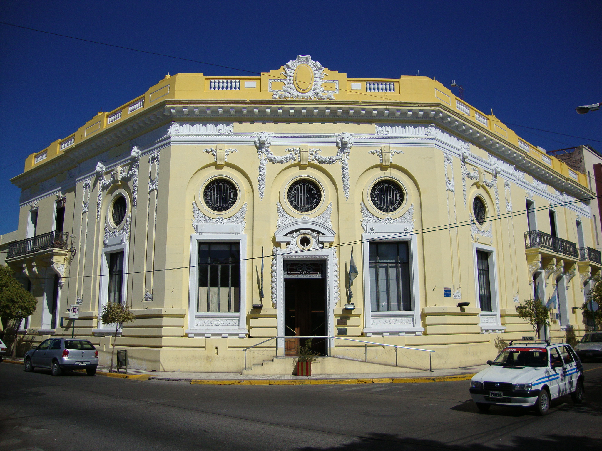 City Hall in San Luis, Argentina. Designed by Italian architect Salvatore Mirate (1862-1916) as the local branch of the National Bank of Argentina, the building was completed in 1909 and repurposed for use as the city hall in 1954. [1]